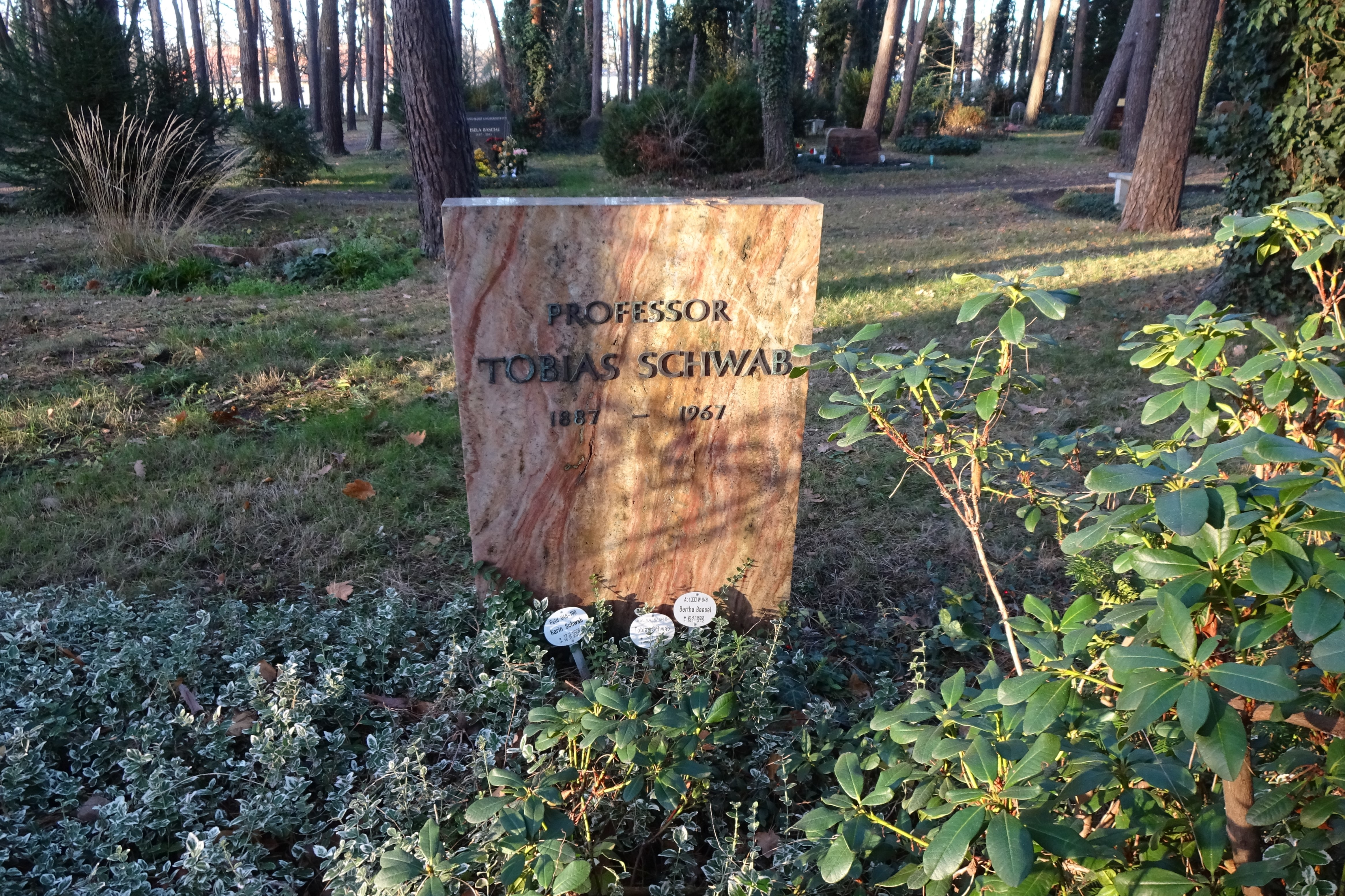 Grave of graphic designer Tobias Schwab in Waldfriedhof Zehlendorf in Berlin